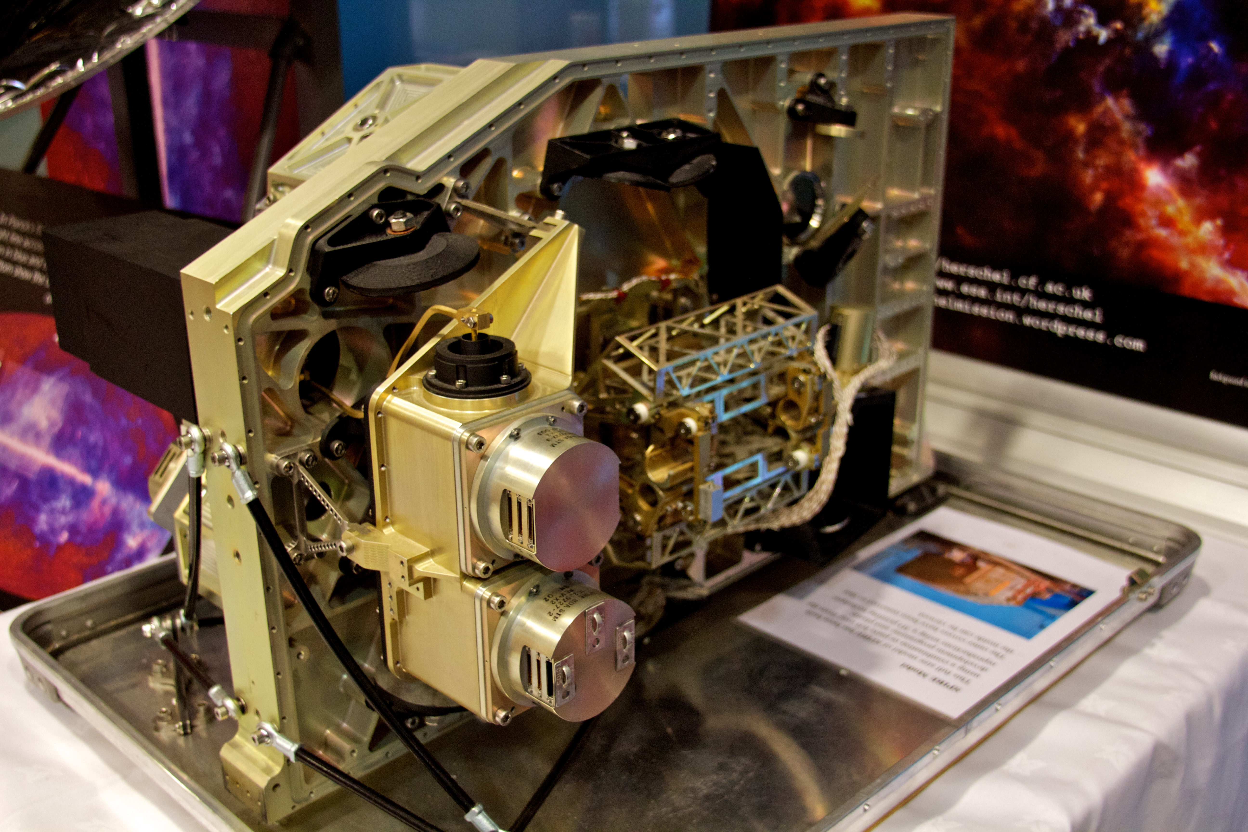 Herschel SPIRE model at the National Astronomy Meeting 2012, Manchester.